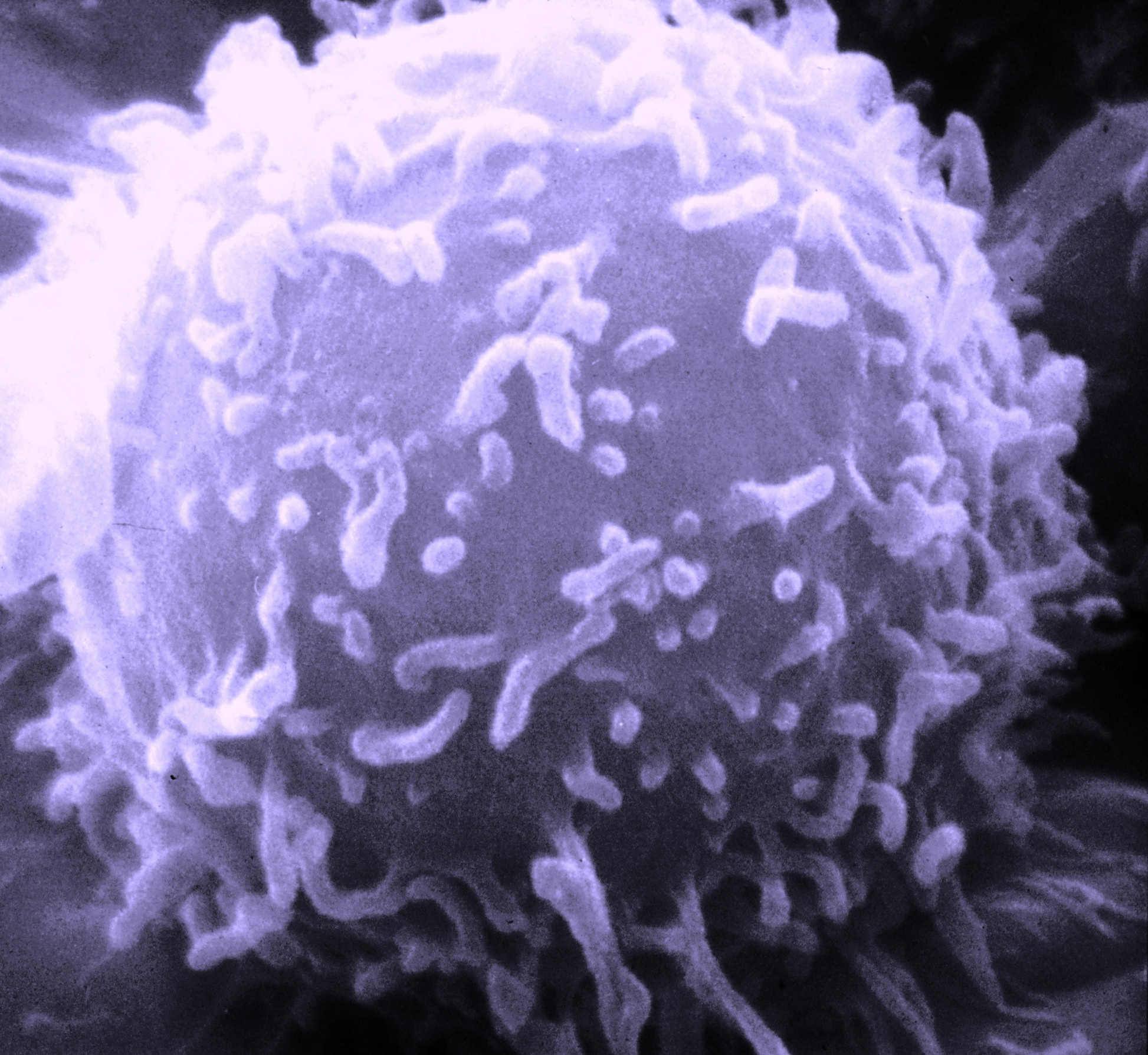 Electron microscopic image of a single human lymphocyte. Type: Black & White Print